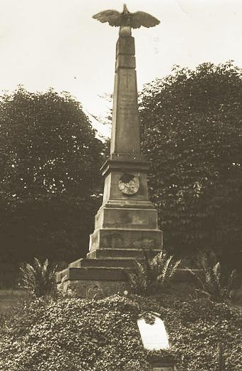 Monument in memory of Teofil Wiśniowski and Józef Kapuściński executed 1847 in Lwów at Góra Stracenia hill